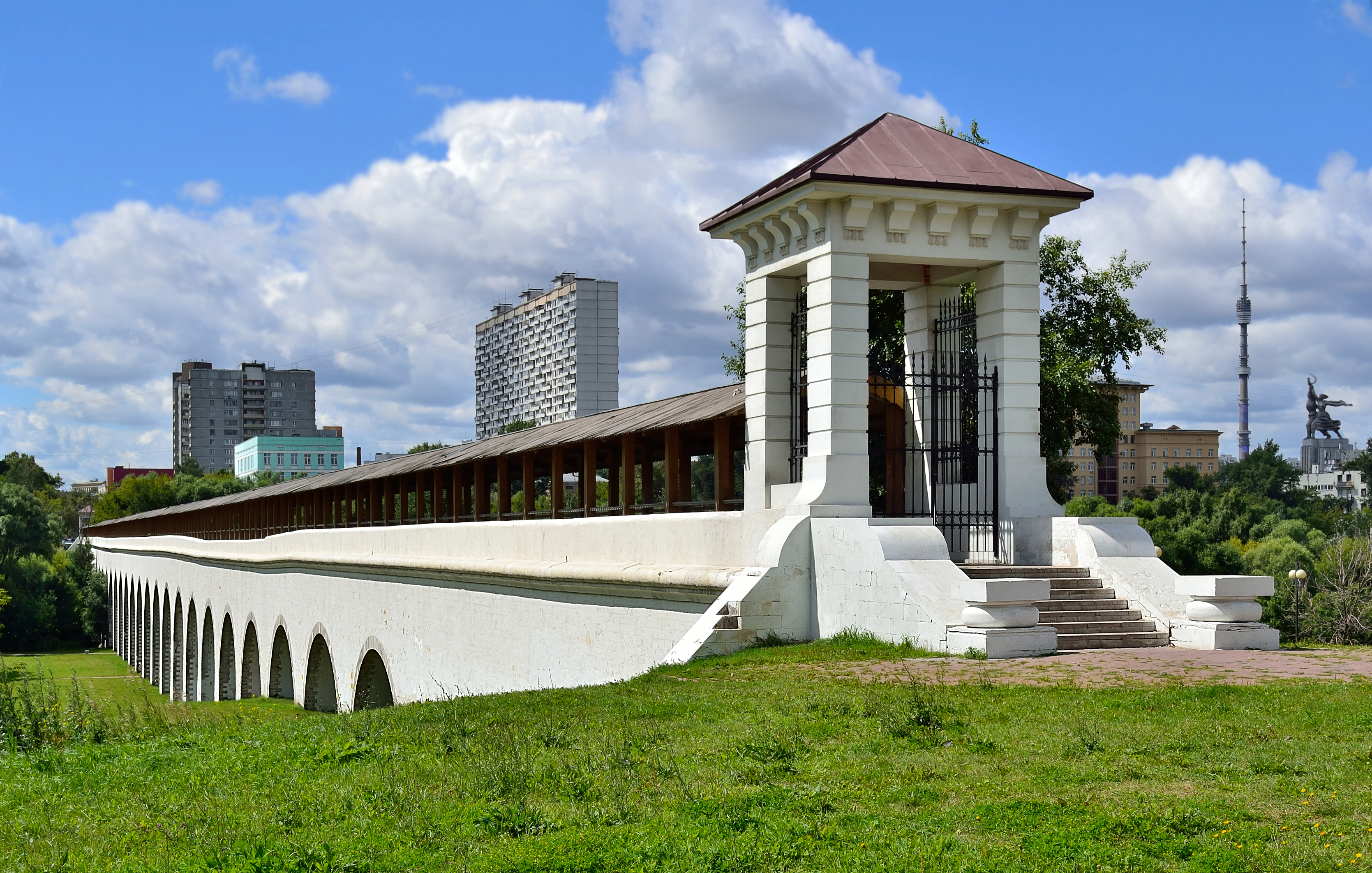 Moscow. The Rostokino Aqueduct. 1780—1804. The Ostankino Tower and the sculpture group Worker and Kolkhoz Woman are seen in the background, on the right.